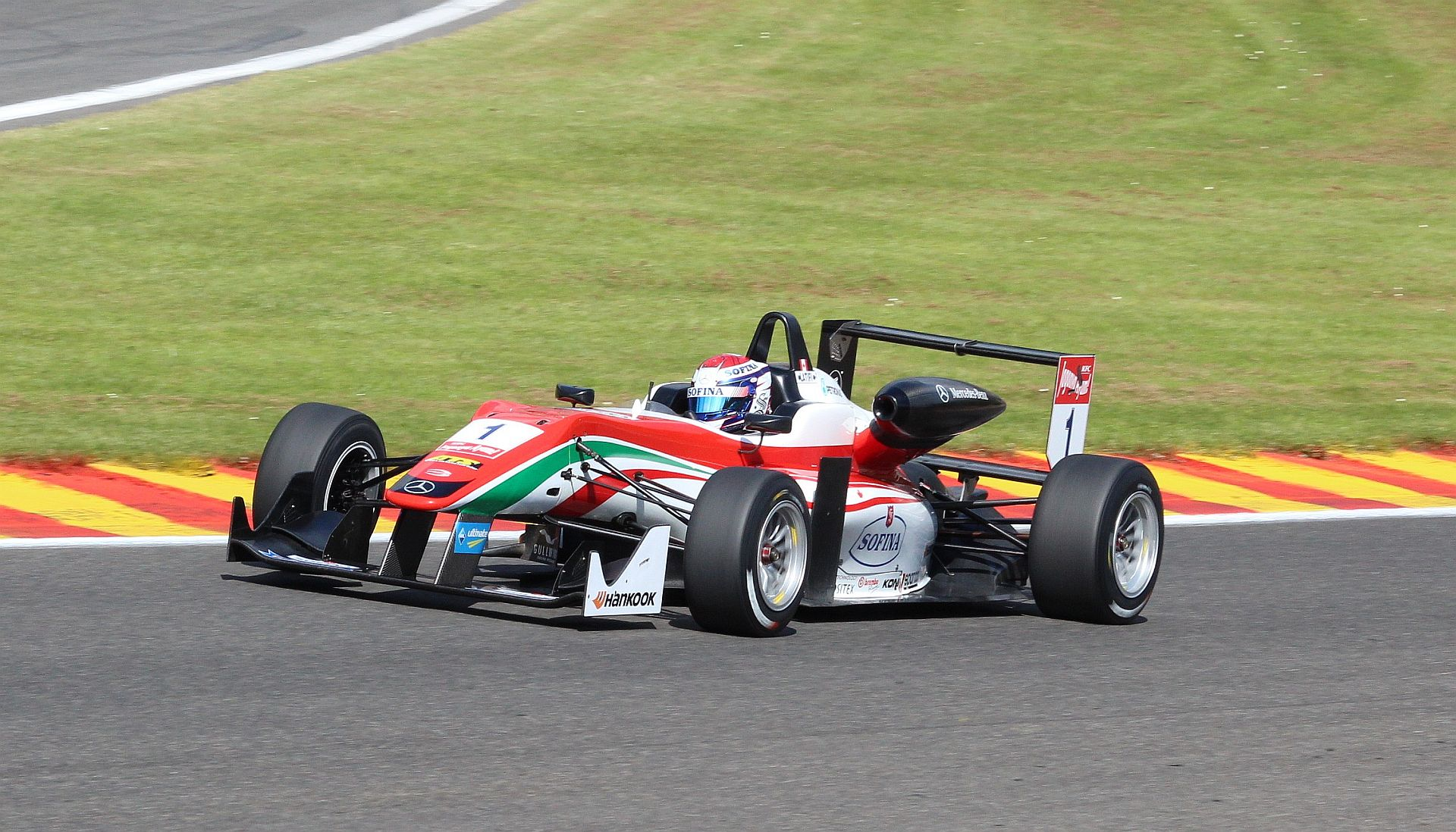 Nicholas Latifi at Spa in 2014, European Formula 3 Championship